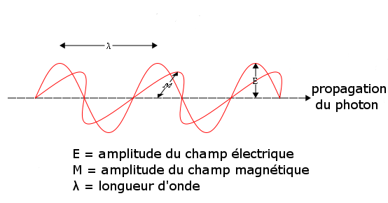 french version of Image:Light-wave.svg (author Heron): representation of the electric and magnetic fields associated to the propagation of a photon